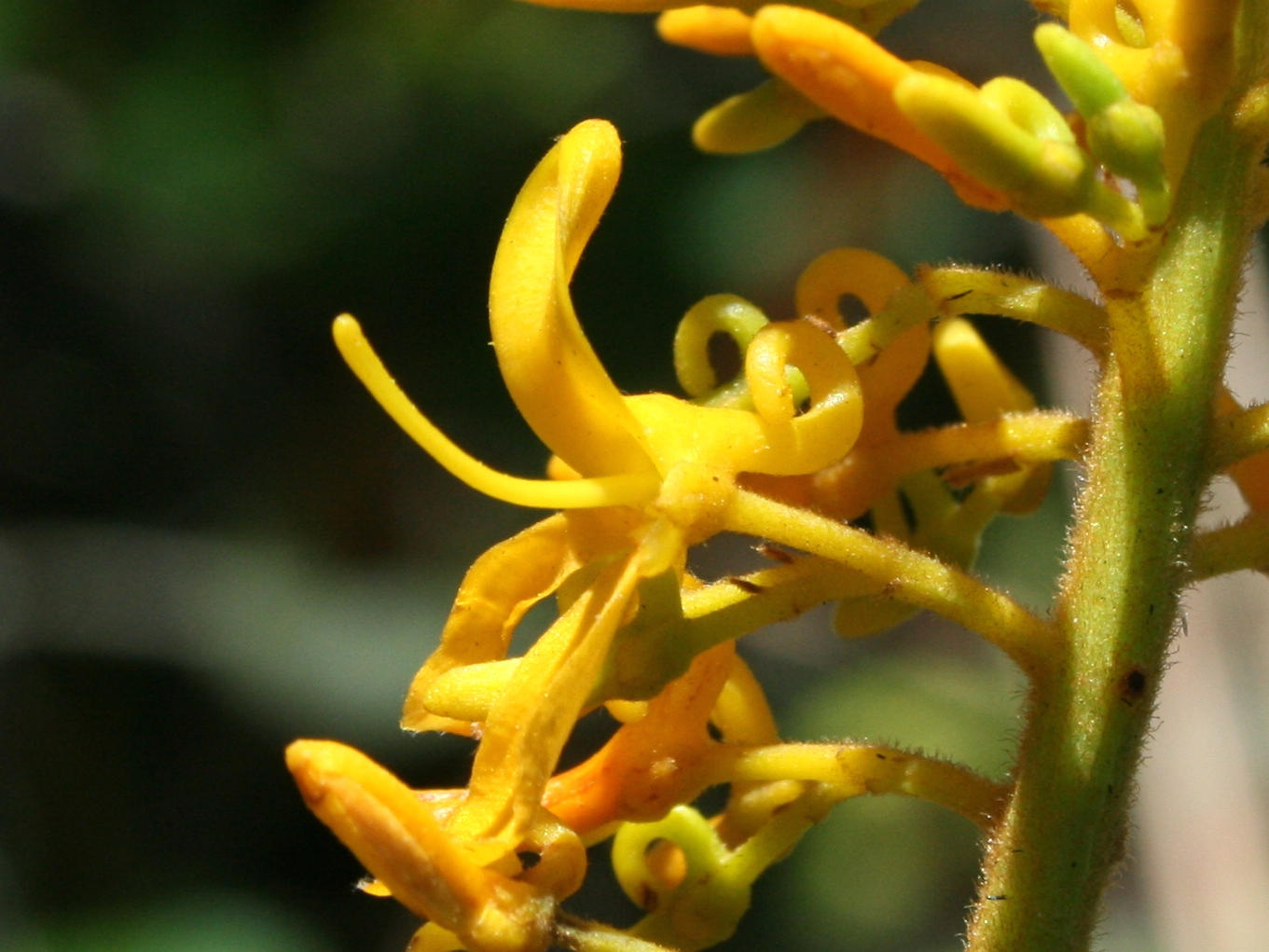 Vochysia ferruginea, Cacuri, Venezuela